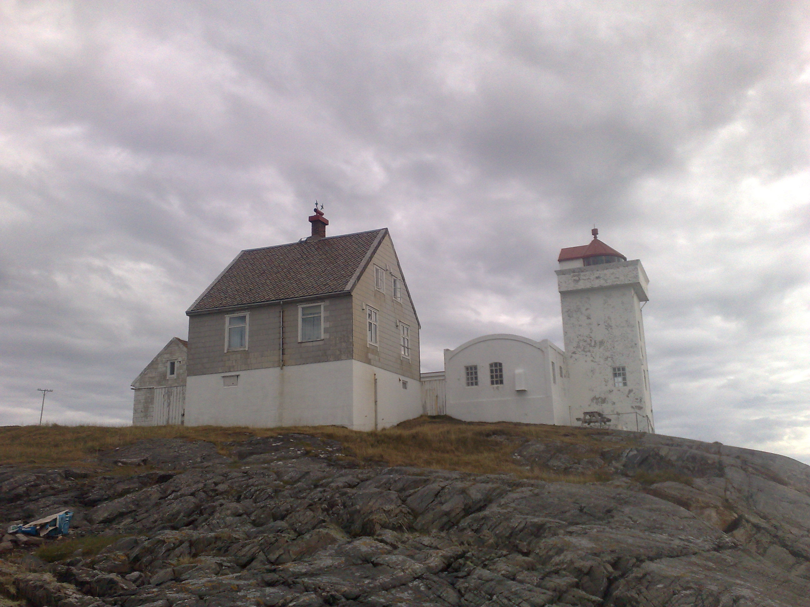 Terningen lighthouse